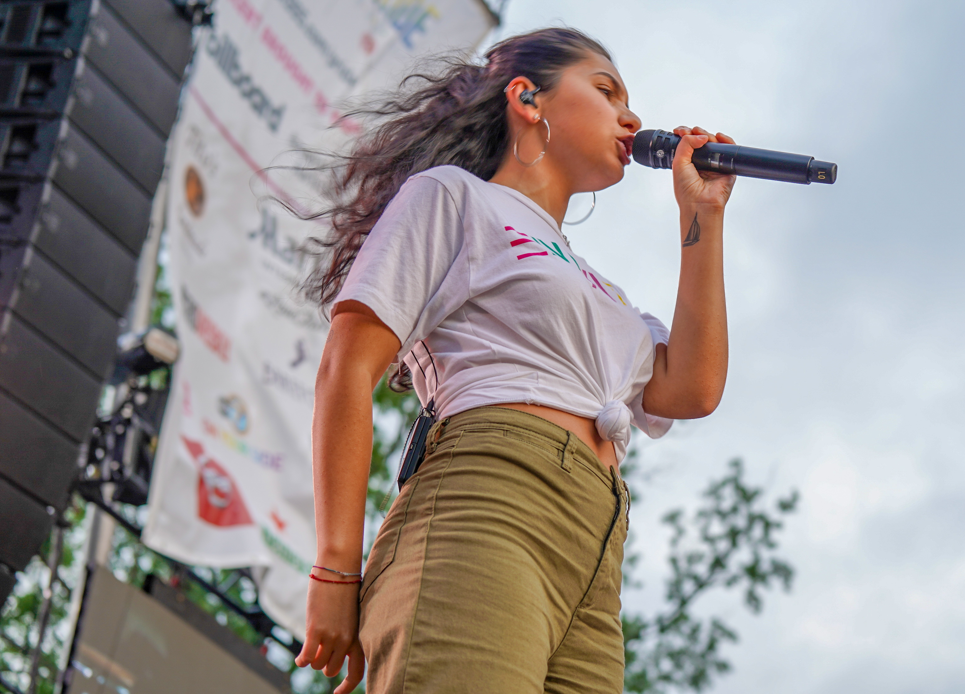 Honored to be part of the media team capturing the performance of Alessia Cara at the 2018 Capital Pride Concert, Washington, DC USA